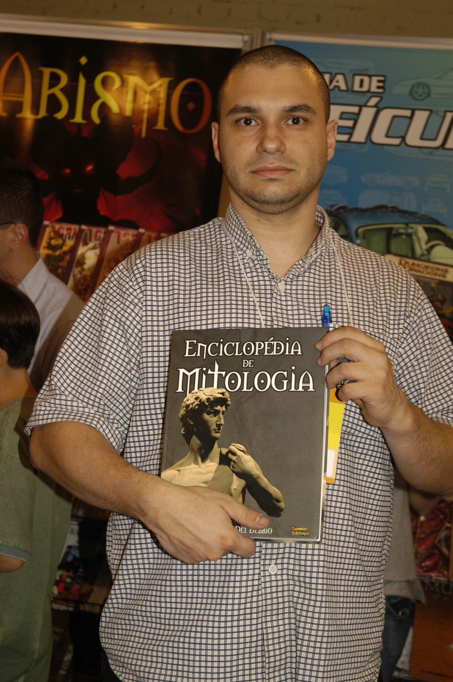 Brazilian author Marcelo Del Debbio